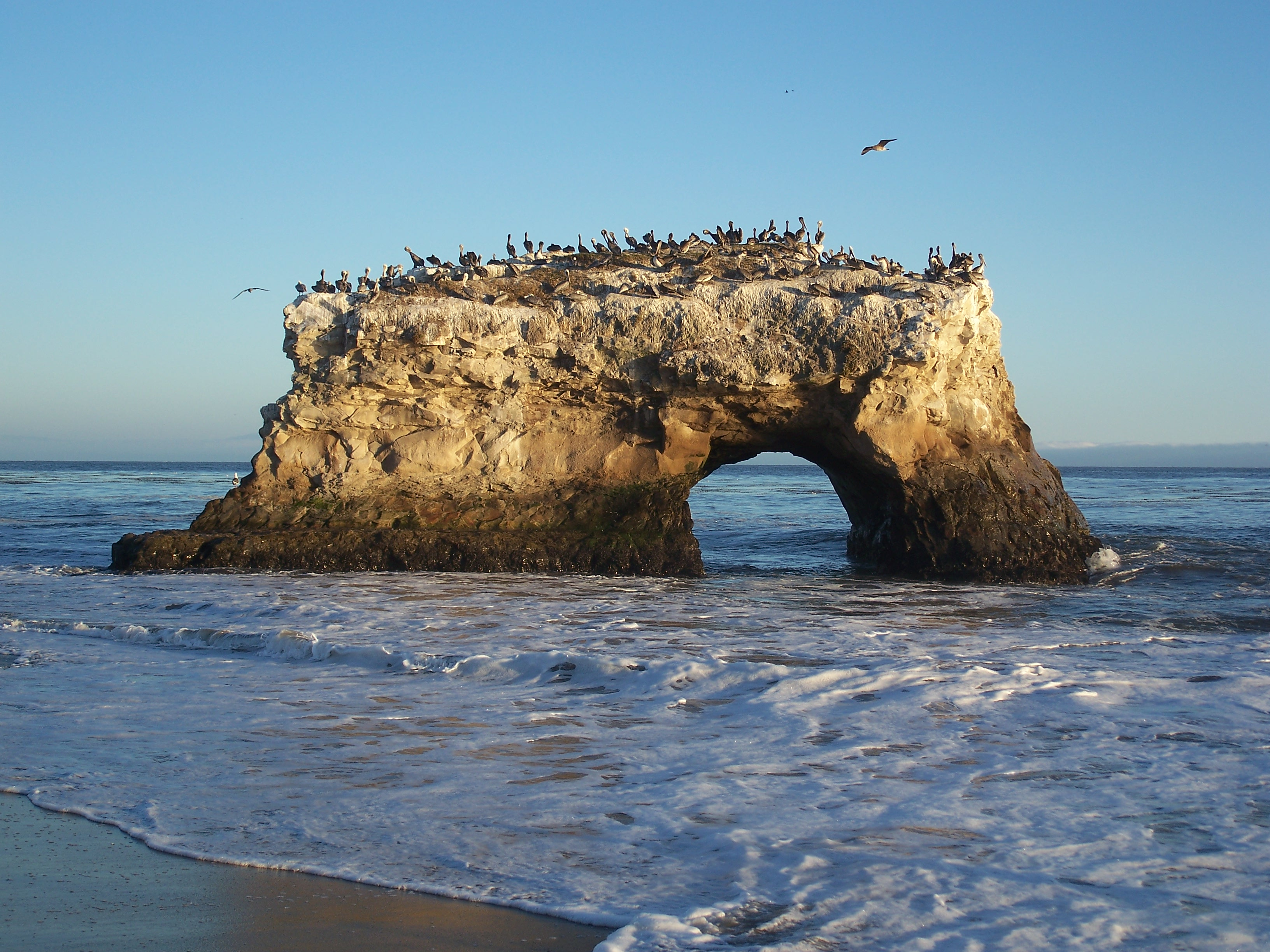 Natural Bridges State Beach. Santa Cruz, California, USA.